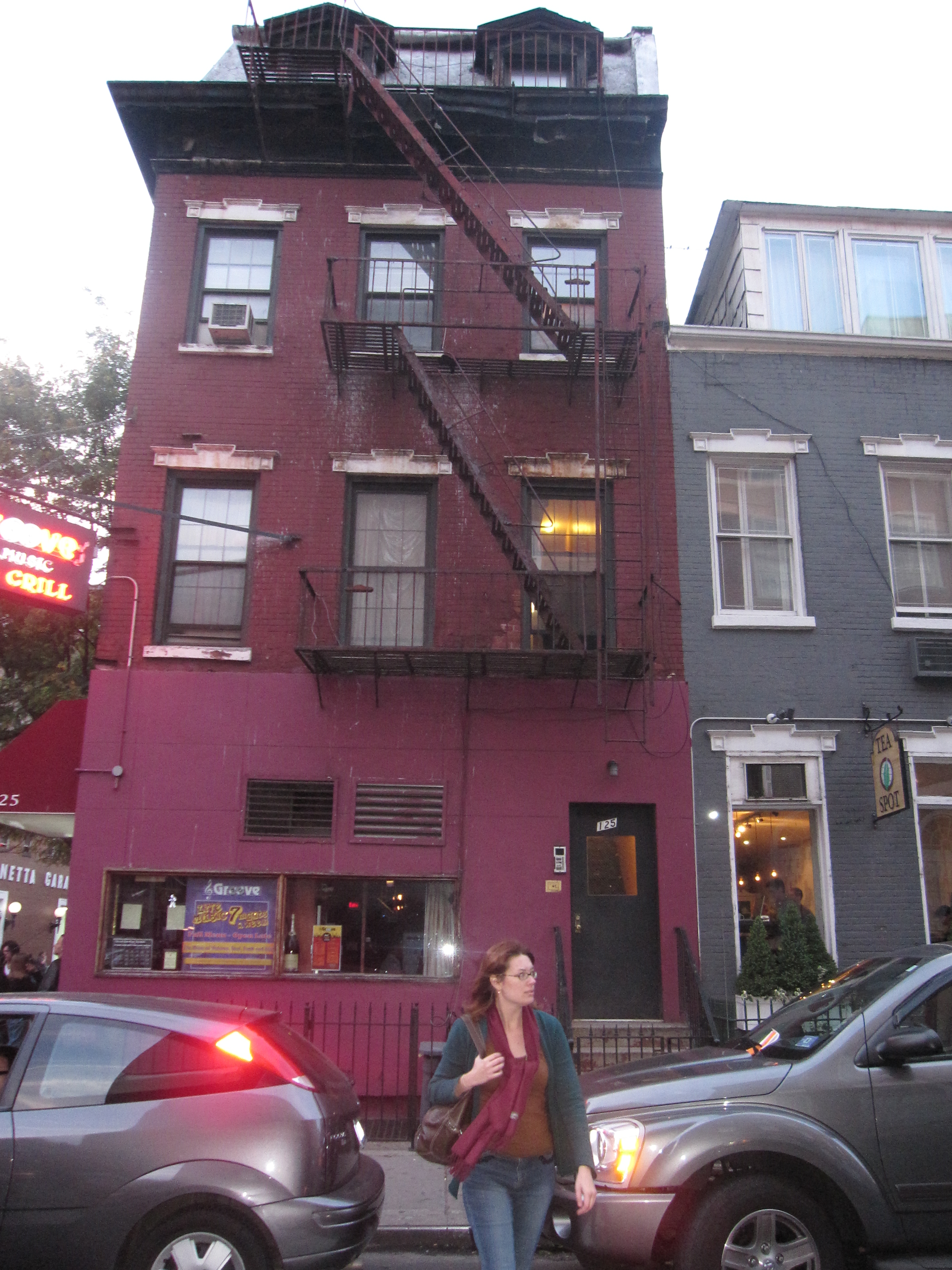 125 MacDougal Street House in New York City. #127 oto its right is a landmark.